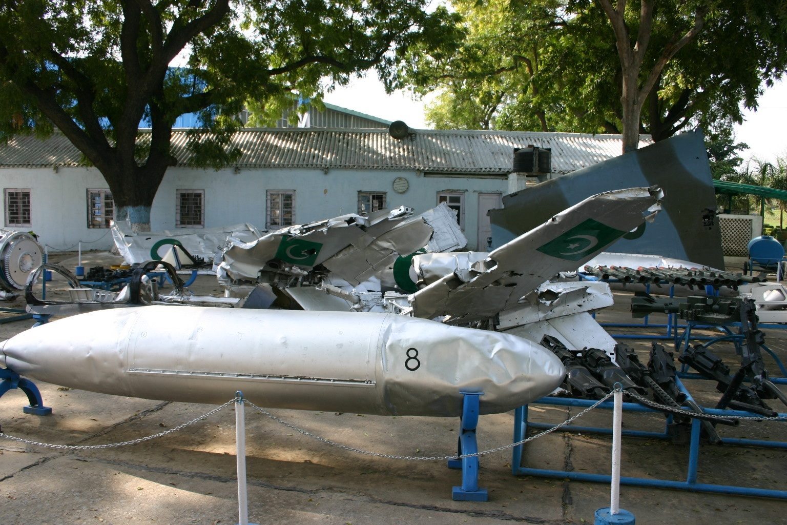 At Delhi Indira Gandhi International Airport